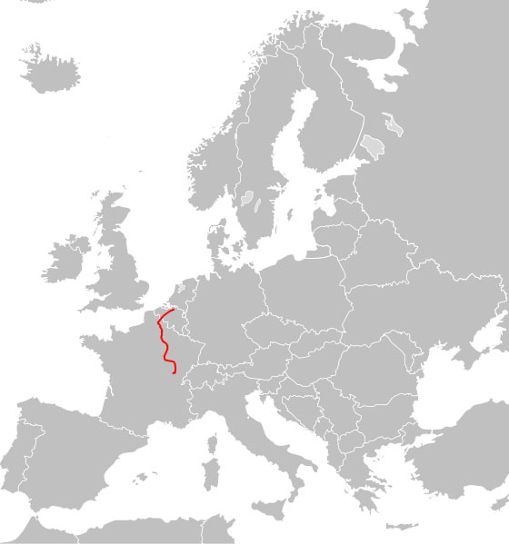 The European route 17